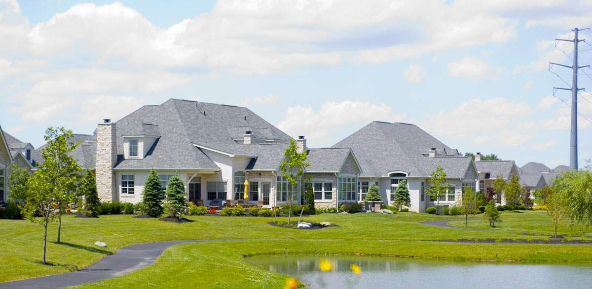 Rear of houses on Dolman Drive just northwest of the intersection of Rutherford Road and Sawmill Parkway in Powell, Ohio, United States.